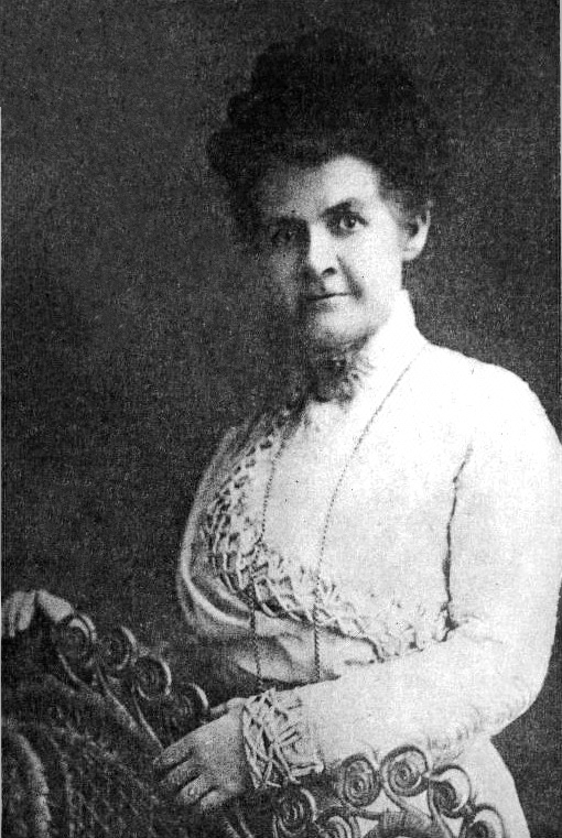 Photo of Martha Hughes Cannon, a physician, Utah women's rights advocate and suffragist, and Utah state senator. In 1896 Cannon became the first female state senator elected in the United States, defeating her own husband, who was also on the ballot.